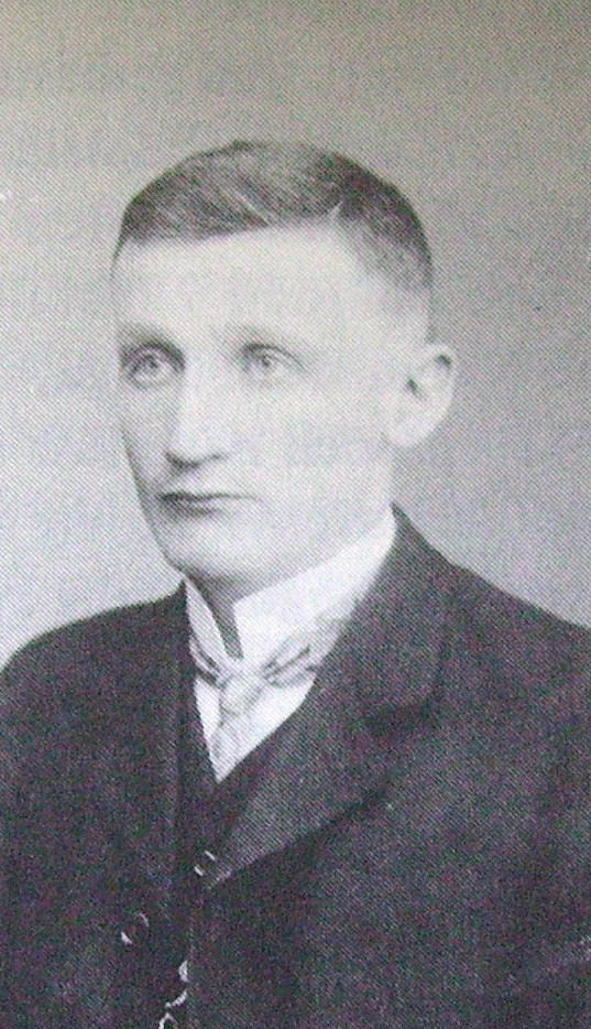 Picture of Erik Sandblad, Swedish politician